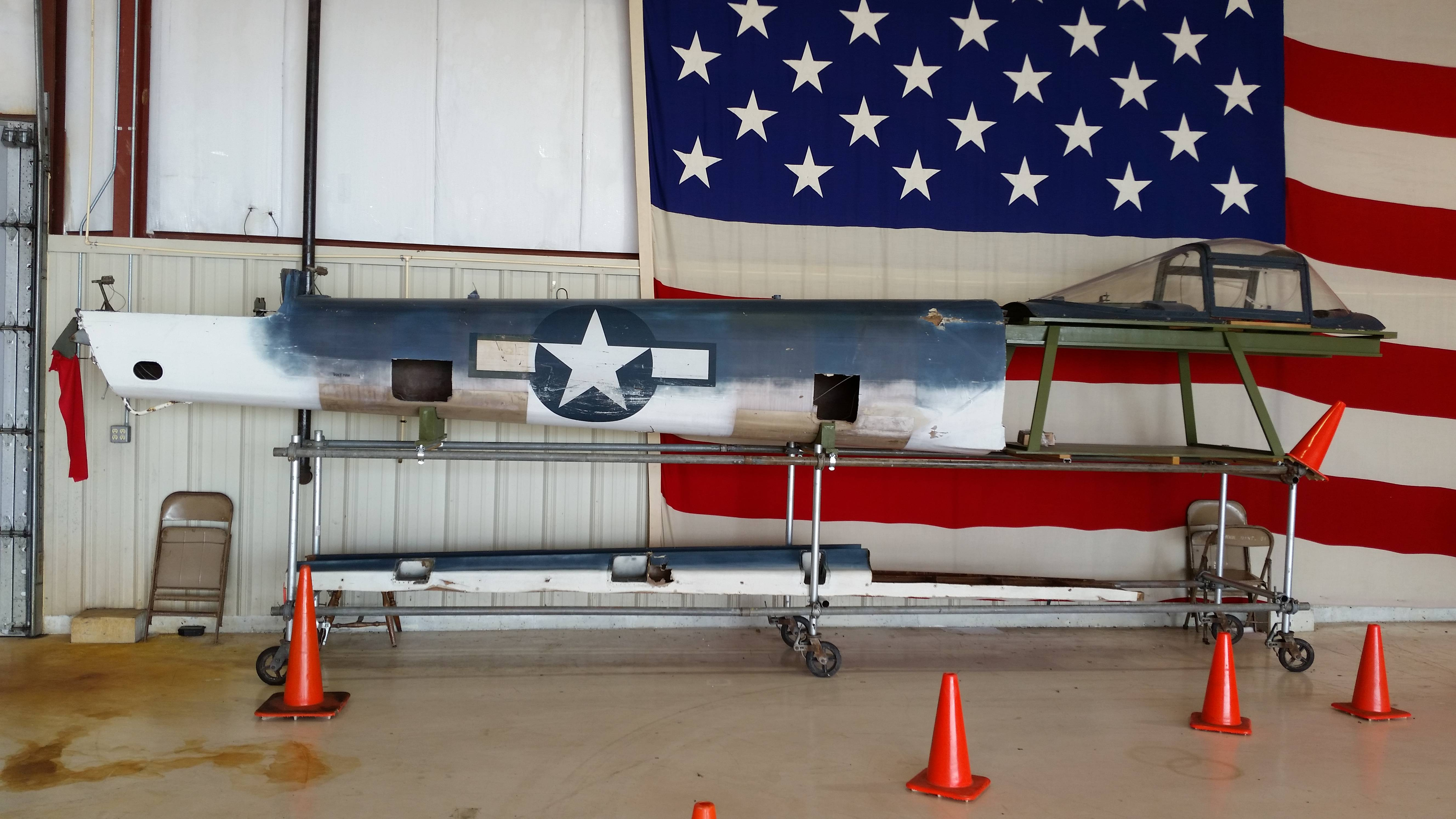 Parts of an Interstate TDR, stored in a hangar at DeKalb Taylor Municipal Airport